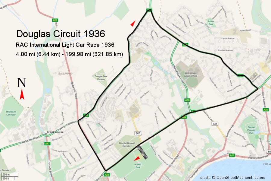 Douglas Circuit 1936 (Isle of Man)